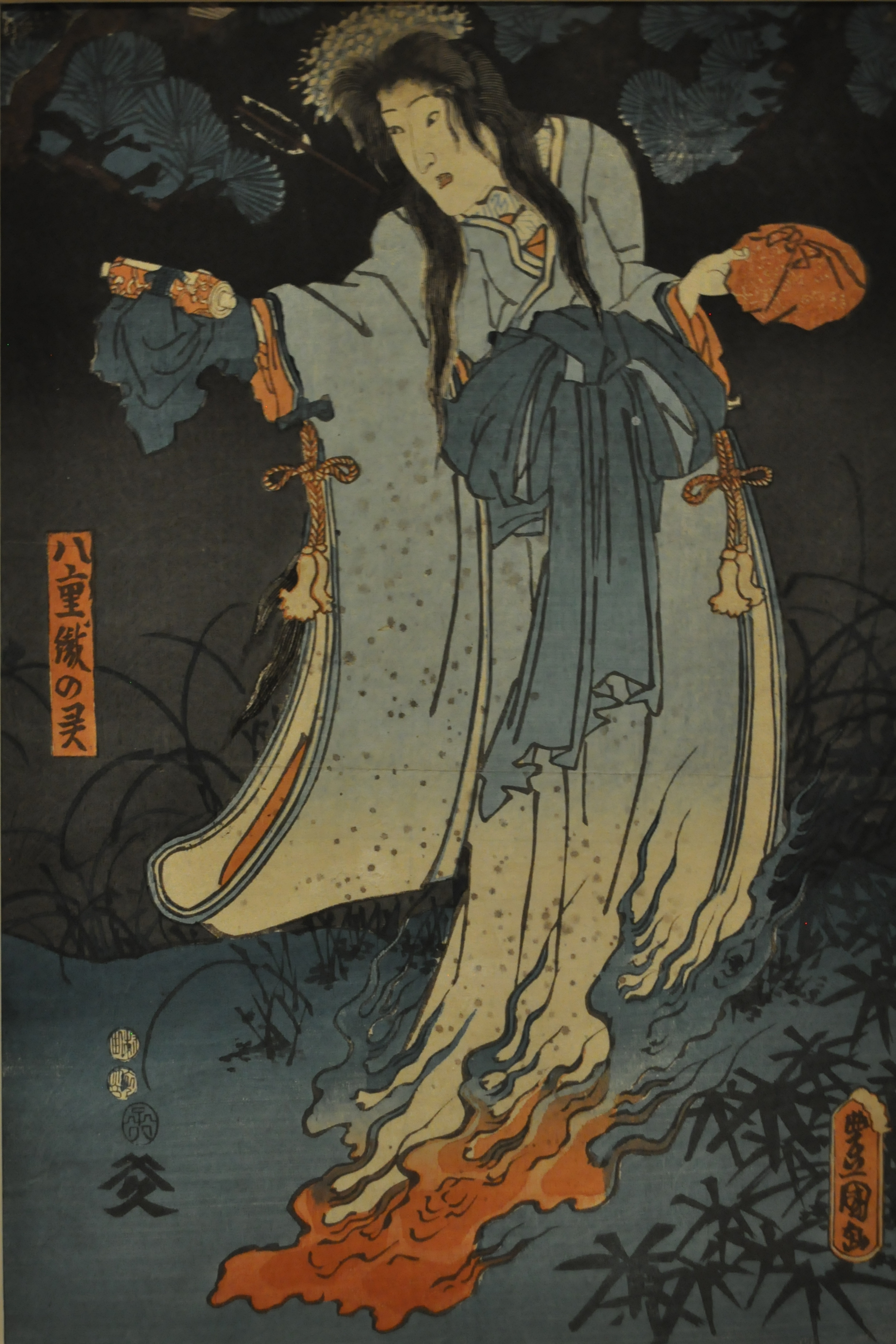 center sheet of a kabuki triptych, signed „Toyokuni ga“, the actor Onoe Baikō IV as Yaeki hime no rei (八重機姫の霊) [the ghost of princess Yaeki] from the play „Otogi banashi hakata no imaori“, performed at the Nakamura theatre in 8/1852; censor seals: Kinugasa and Murata; publisher: Yamamotoya Heikichi